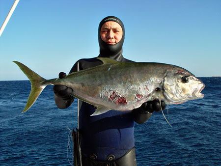 Good result of spearfishing